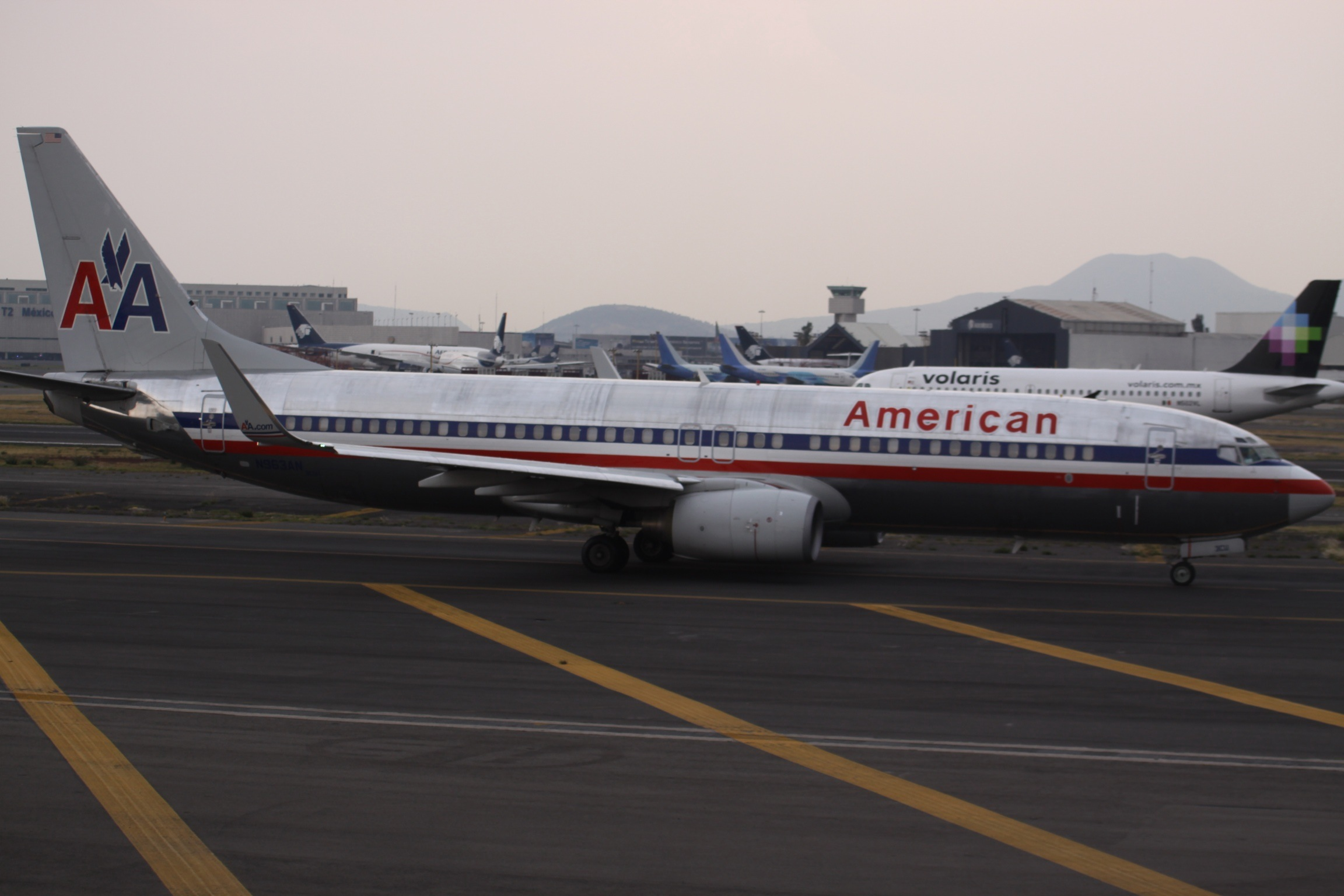 At Mexico City International Airport